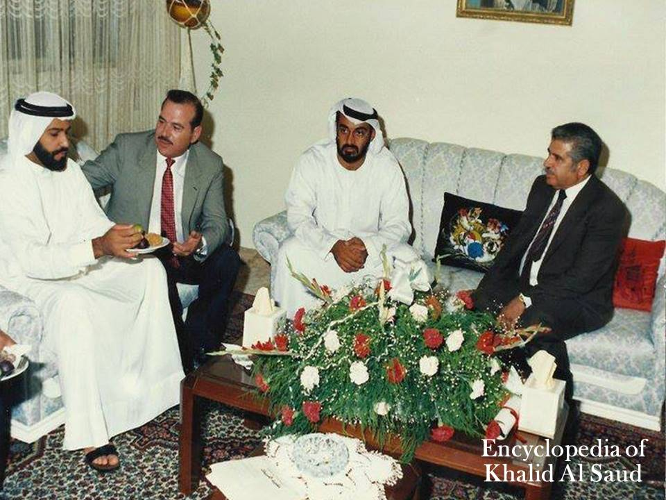 A photo taken 06 March 1989 of Sh Mohammed bin Zayed Al Nahyan the Crown Prince of Abu Dhabi and Deputy Supreme Commander of the UAE Armed Forces during a visit to Sh Hassan Rashed Al-Khuzai at his house in Amman, the capital of Jordan